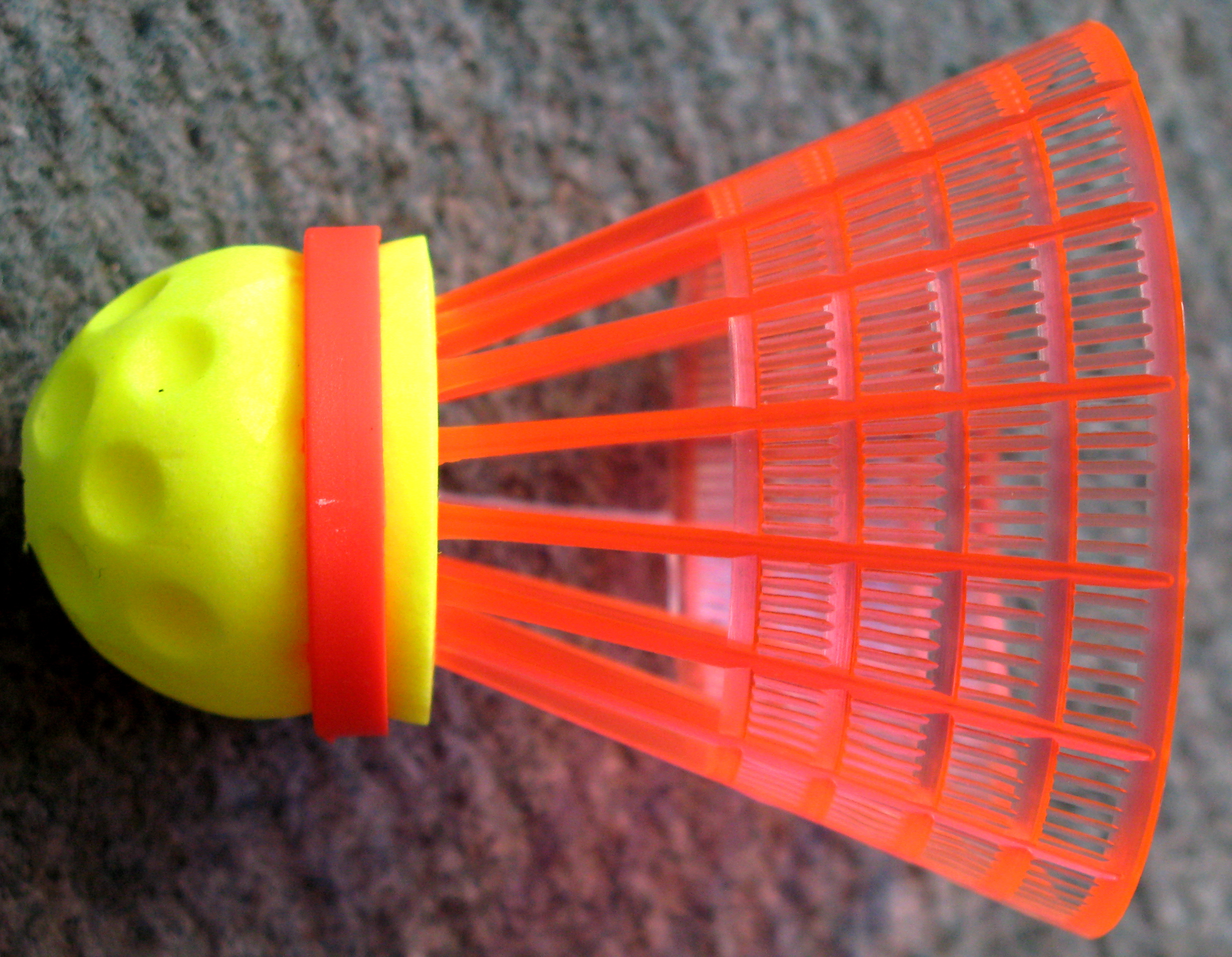 Fun Speeder for the Speed Badminton